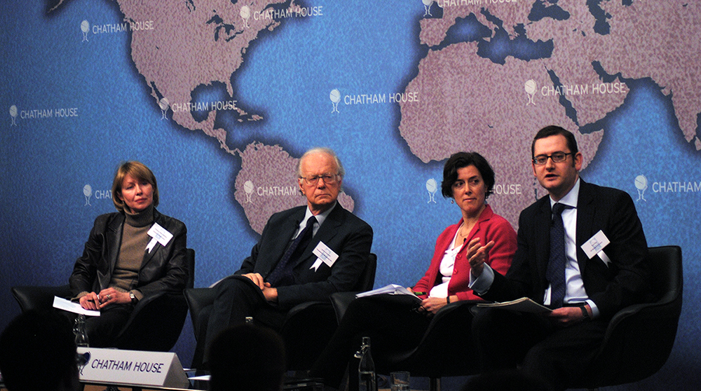 Professor Alena Ledeneva, Laurence Cockroft, Michela Wrong and Paul Kett (left to right) at the Chatham House event Tackling Corruption in a Globalized World, 15 January 2013